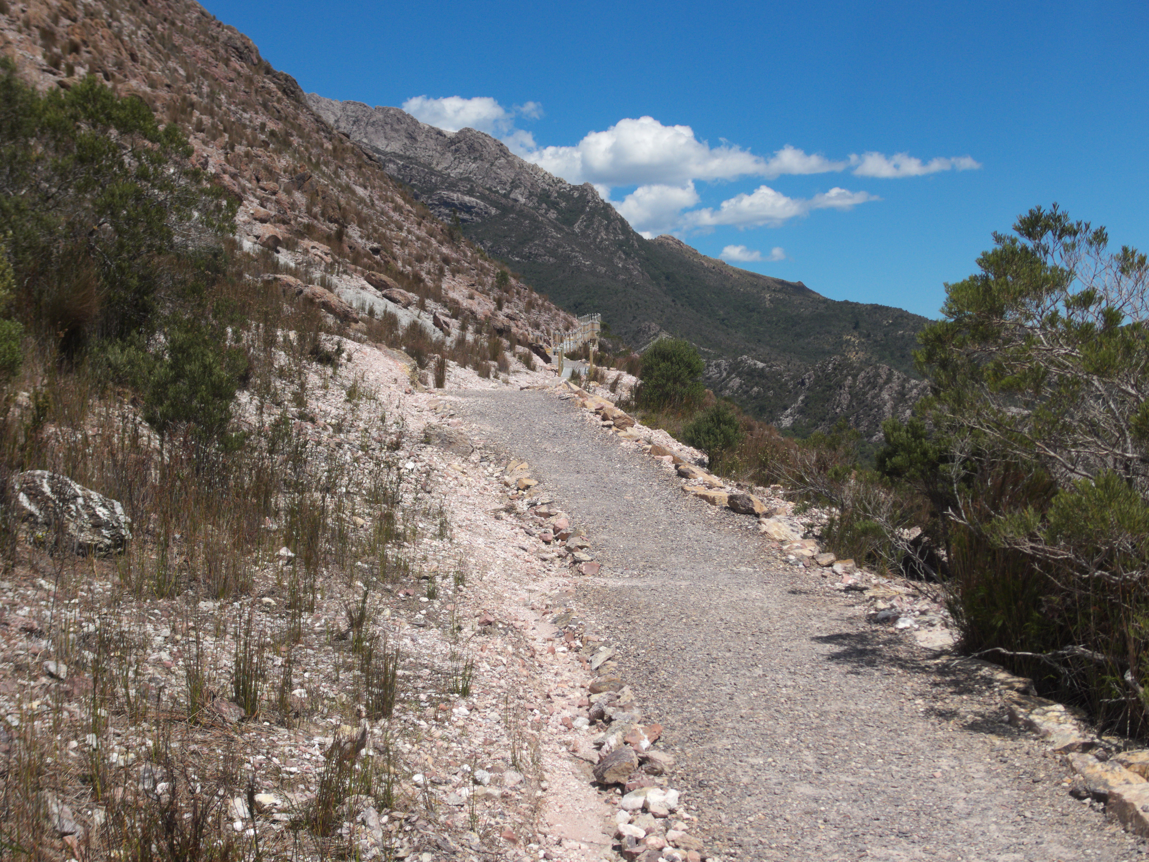 The start of the Horsetail Falls Track, west of Gormanston, Tasmania.